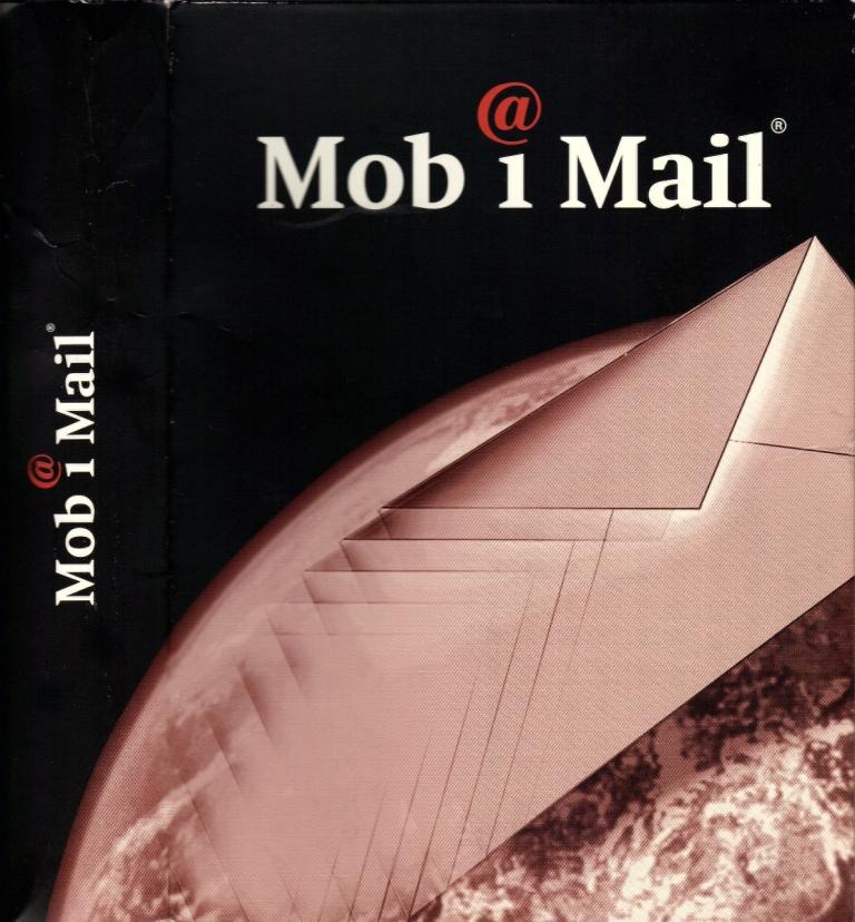 this was the original mobimail logo or box which carried the software cables and form